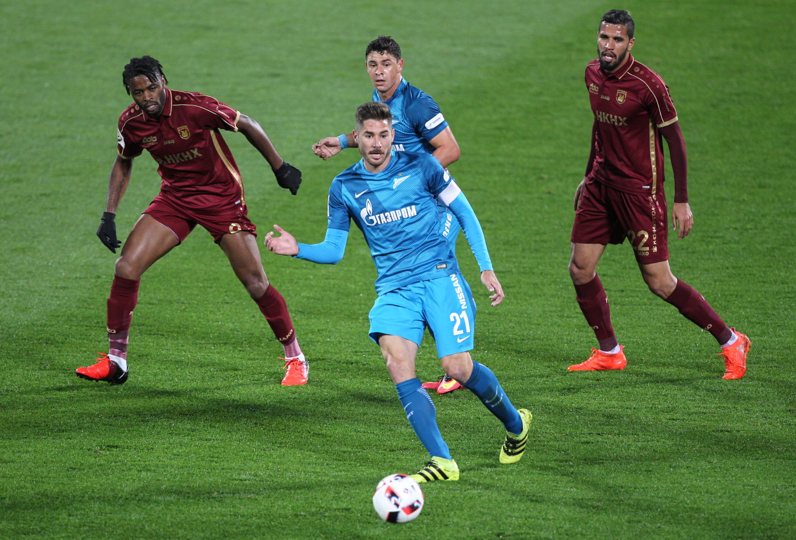 19.09.2016. Россия, Санкт-Петербург, «Петровский», Большая арена. РОСГОССТРАХ-Чемпионат России, 7-й тур, «Зенит» — «Рубин». На снимке в синей форме: .